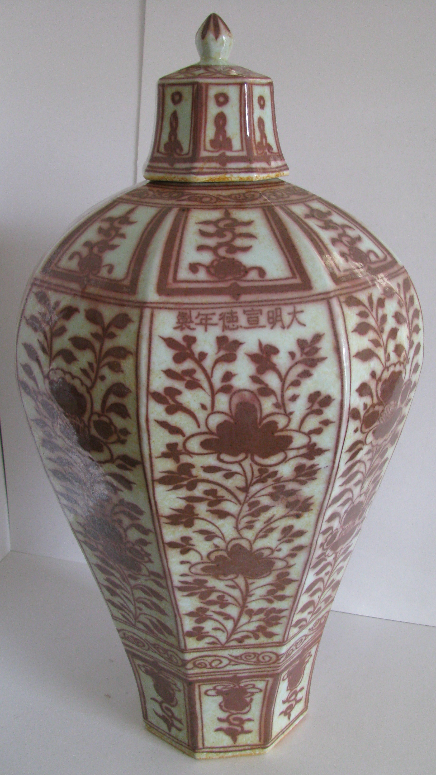 copper red underglazed paintings on octagonal meiping